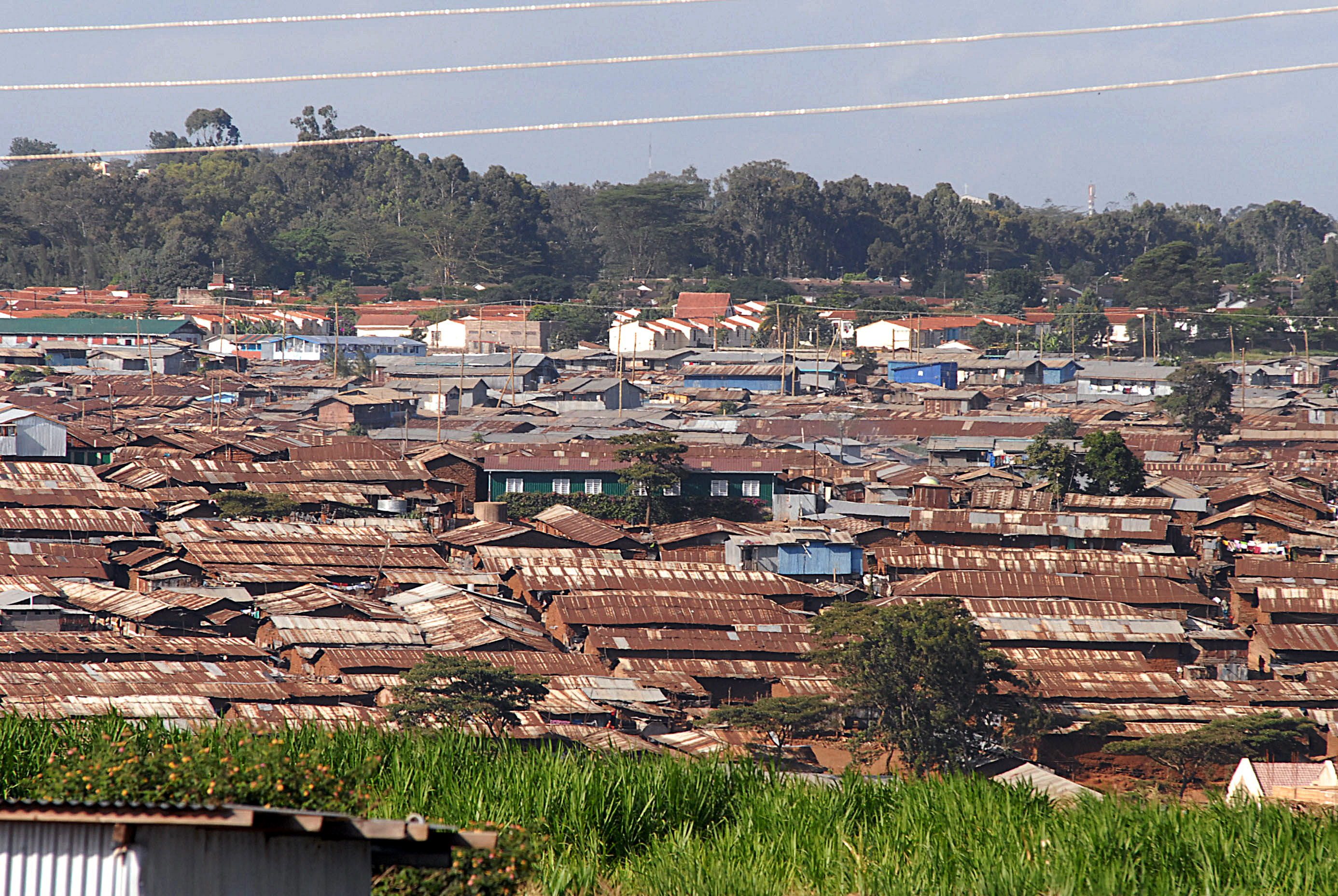 Kibera the largest slum of Nairobi, capital of Kenya.